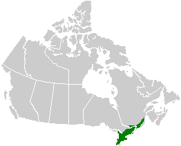 Mixedwood plains